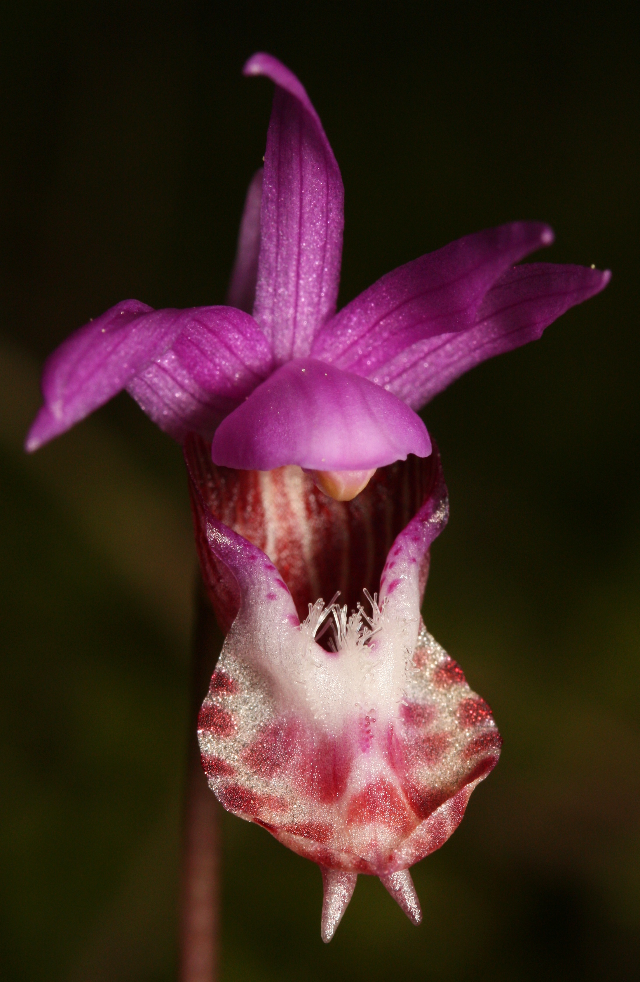 Calypso bulbosa var. occidentalis, the Fairy Slipper. The occidentalis variety is only fpund in western north America.